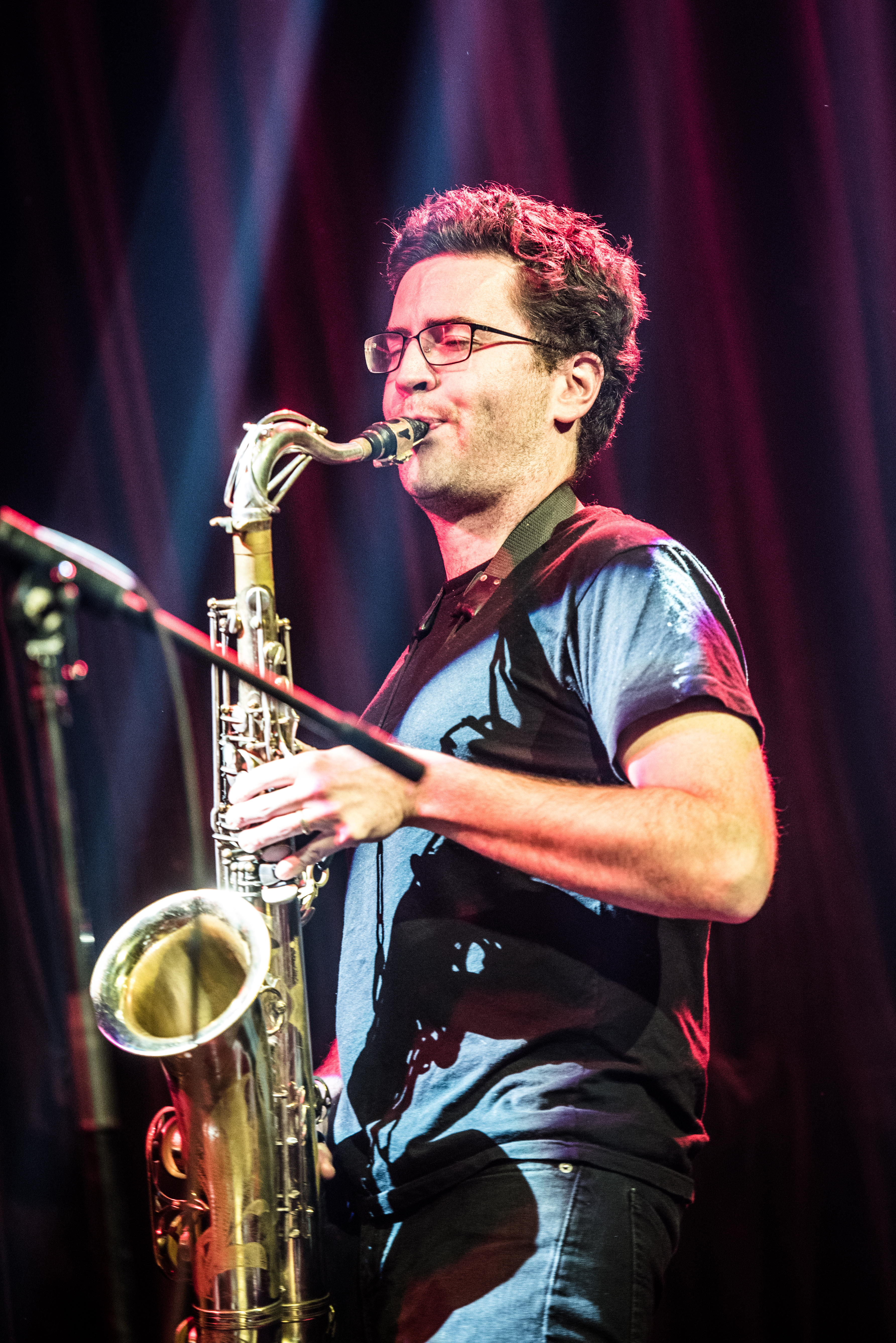 American jazz musician Travis Laplante at the Moers Festival 2017